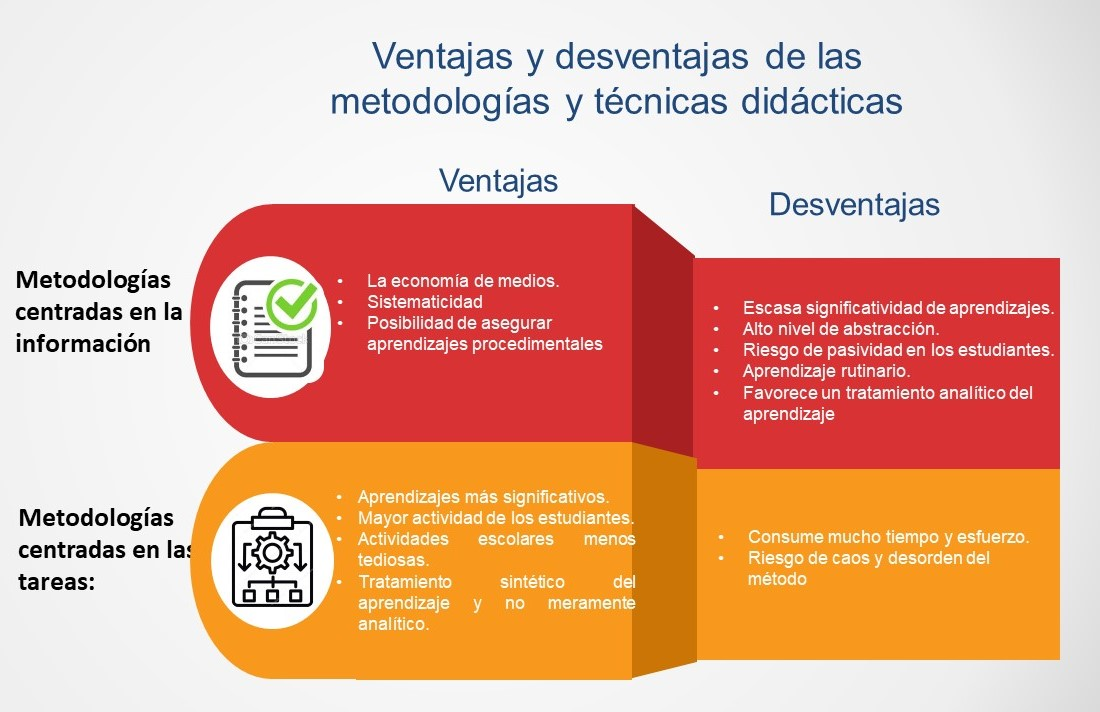 Fuente: Elaboración propia a partir de "Hacia un currículo guiado por competencias" Irene Lopez y Jesus M, Goñi